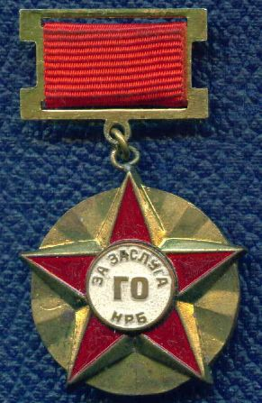 Medal for Merit to the Service for Civil Defence of the People's Republic of Bulgaria.